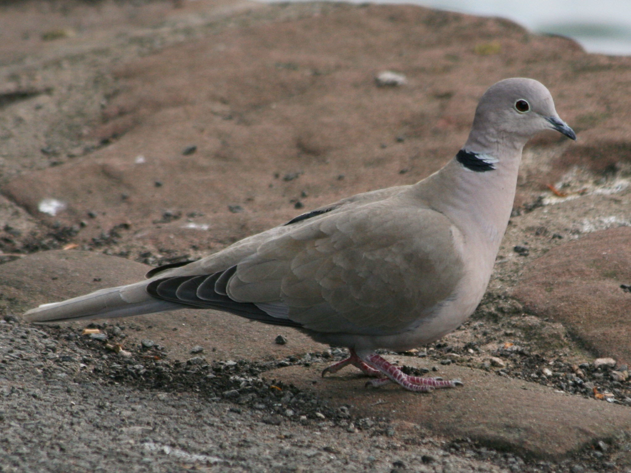 Eurasian Collared Dove (Streptopelia decaocto) - England